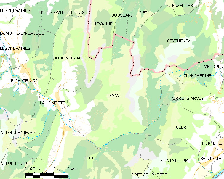 Map of French municipality